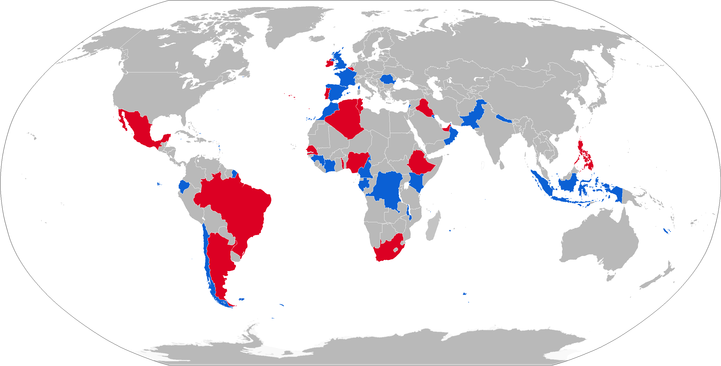 Map with Aérospatiale SA 330 Puma operators in blue with former operators in red